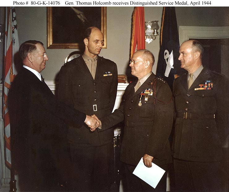 General Thomas Holcomb, USMC receives the congratulations of Secretary of the Navy Frank Knox, upon being presented with the Distinguished Service Medal in recognition of his service as Commandant of the Marine Corps from 1 December 1936 to 1 January 1944. The presentation took place in Secretary Knox' office on 12 April 1944. Looking on are Lieutenant General Alexander A. Vandegrift, Commandant of the Marine Corps (right) and Colonel James Roosevelt.